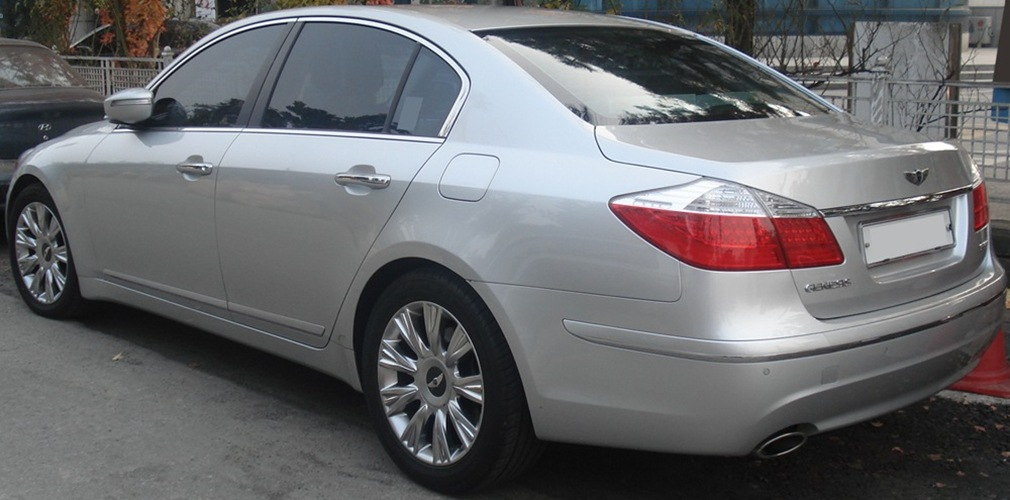 Hyundai Genesis